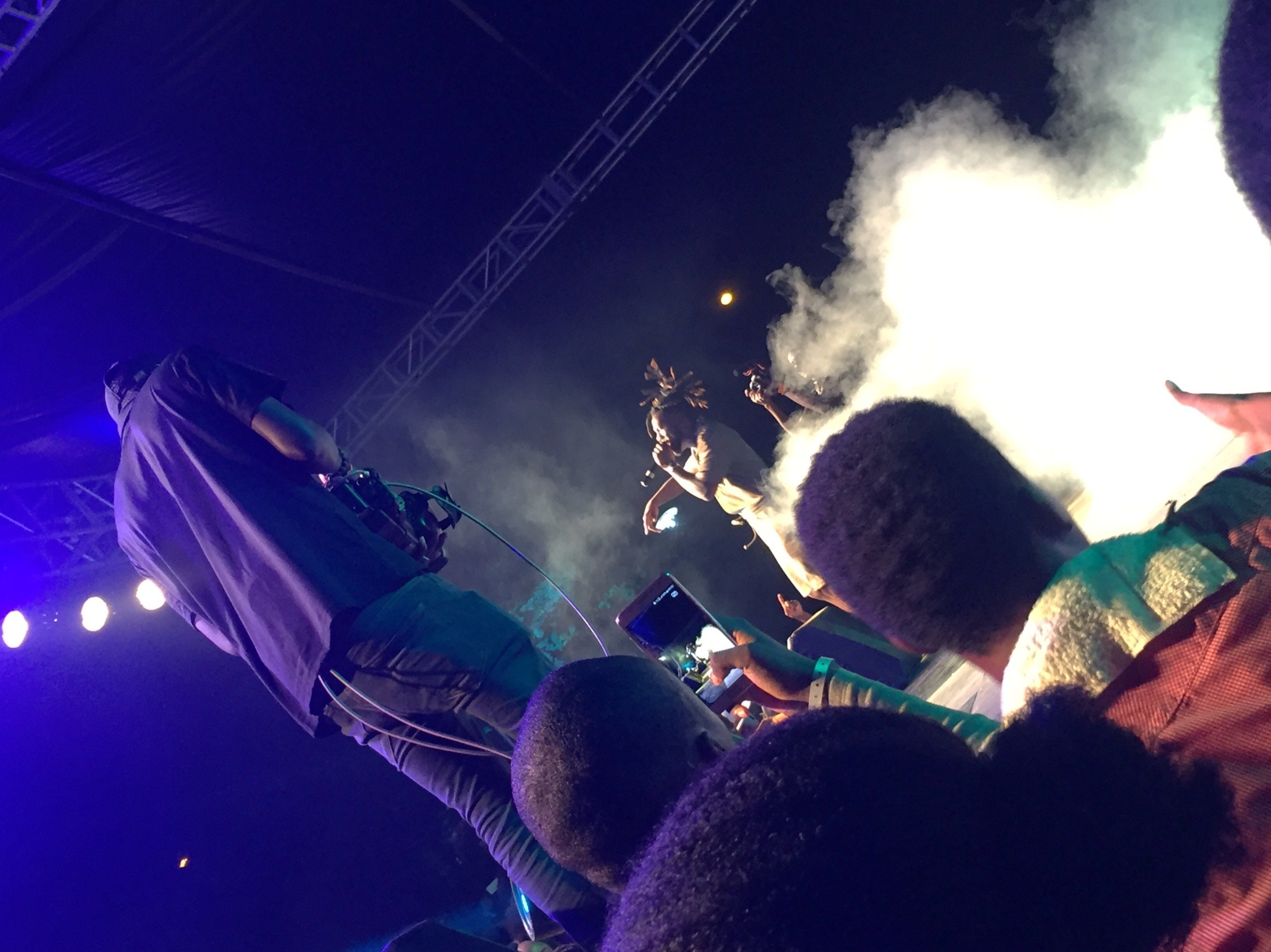 Afrobeats star Burna Boy performing with energy at Nativeland Concert Lagos Nigeria 2016 This is an image from Nigeria